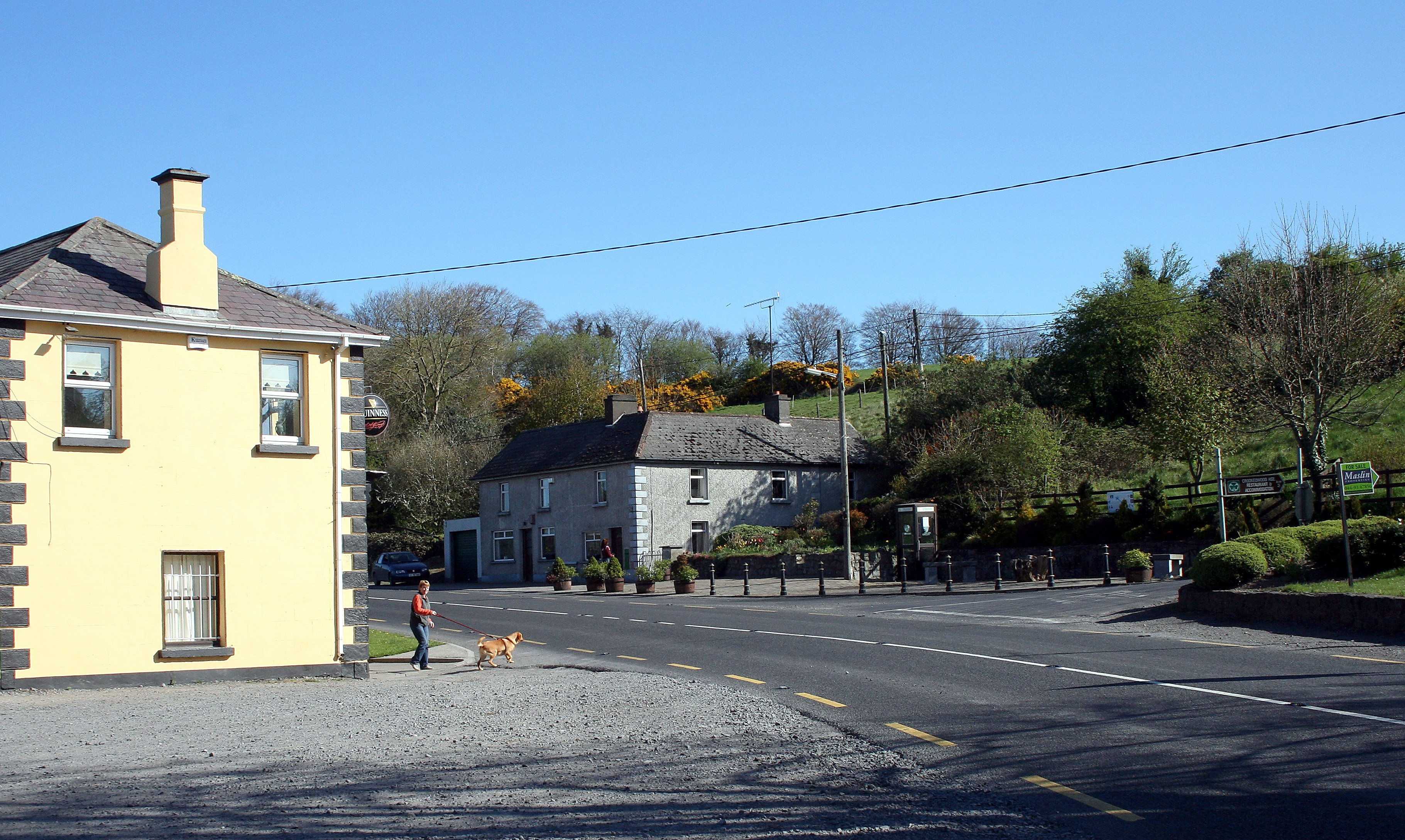 Crookedwood, County Westmeath The village of Crookedwood